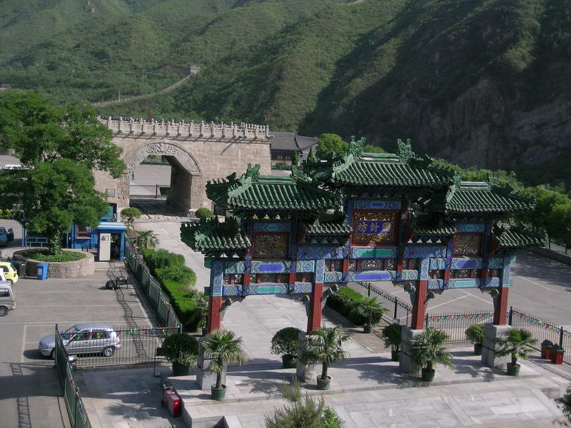 居庸关云台及牌坊(Juyongguan Cloud Platform and torii)